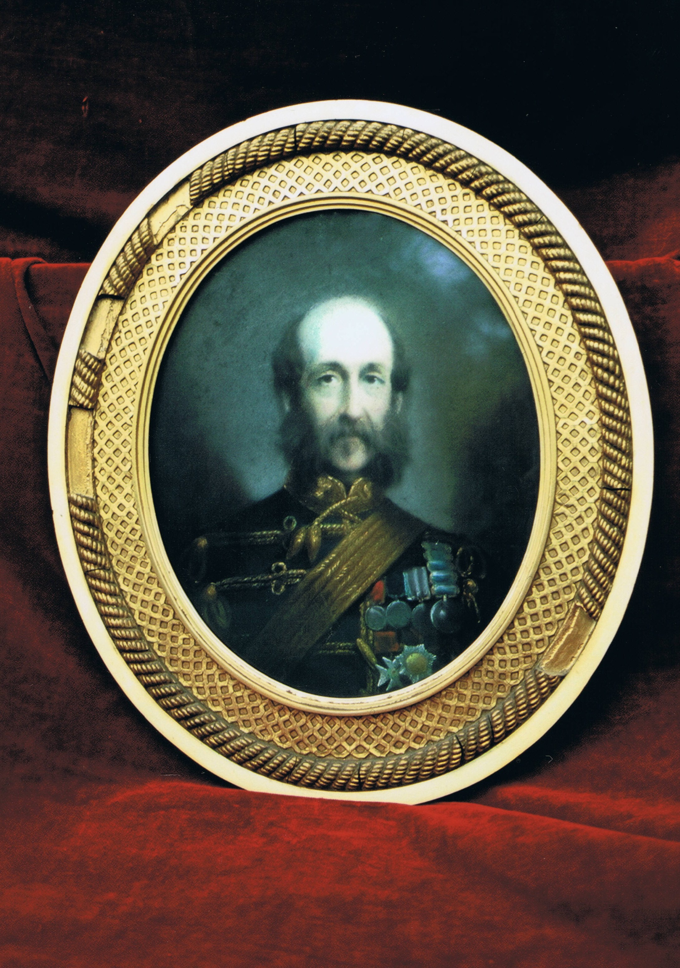 photo (by R. de Salis, spring 2006) of General Rodolph De Salis.Rodolph (talk) 14:53, 14 January 2009 (UTC) Licensing Original work Photograph of work